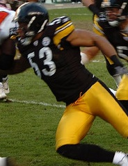 Clark Haggans of the Pittsburgh Steelers during a game in 2006.